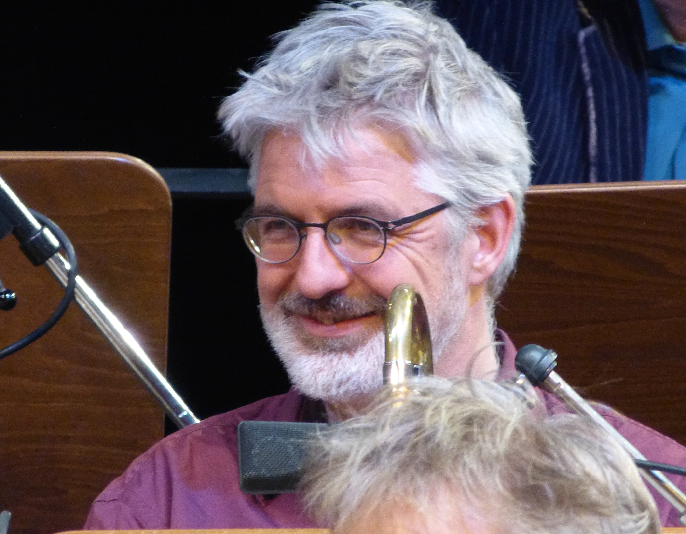 Joost Buis beim Acht Brücken Festival-Konzert der David Kweksilber Big Band im Funkhaus des WDR Köln am 6. Mai 2017 in concert with the David Kweksilber Big Band at WDR, Cologne, Germany, May 6th, 2017 in the course of the Acht Brücken festival